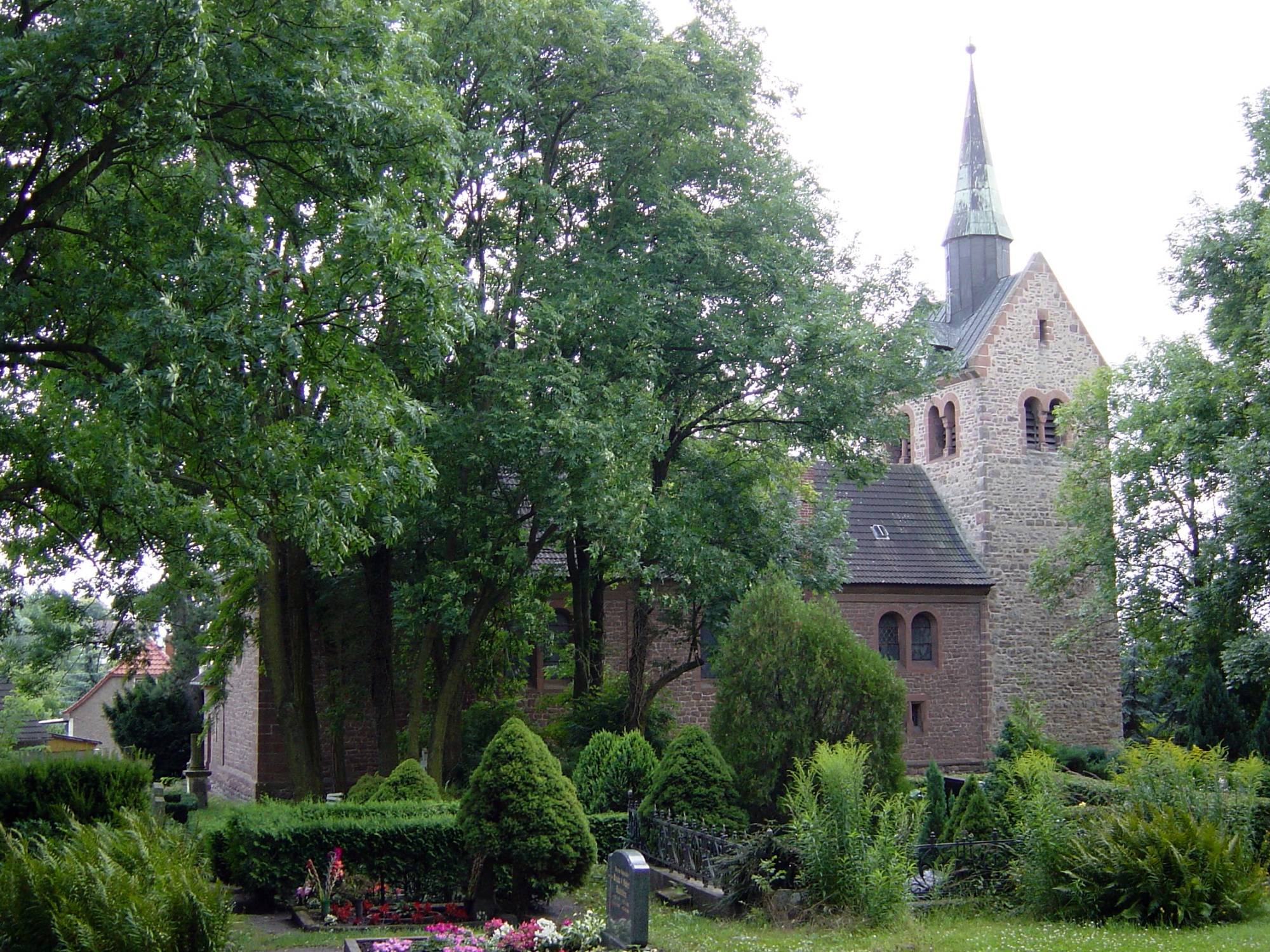 Protestant church in Nordgermersleben, Germany